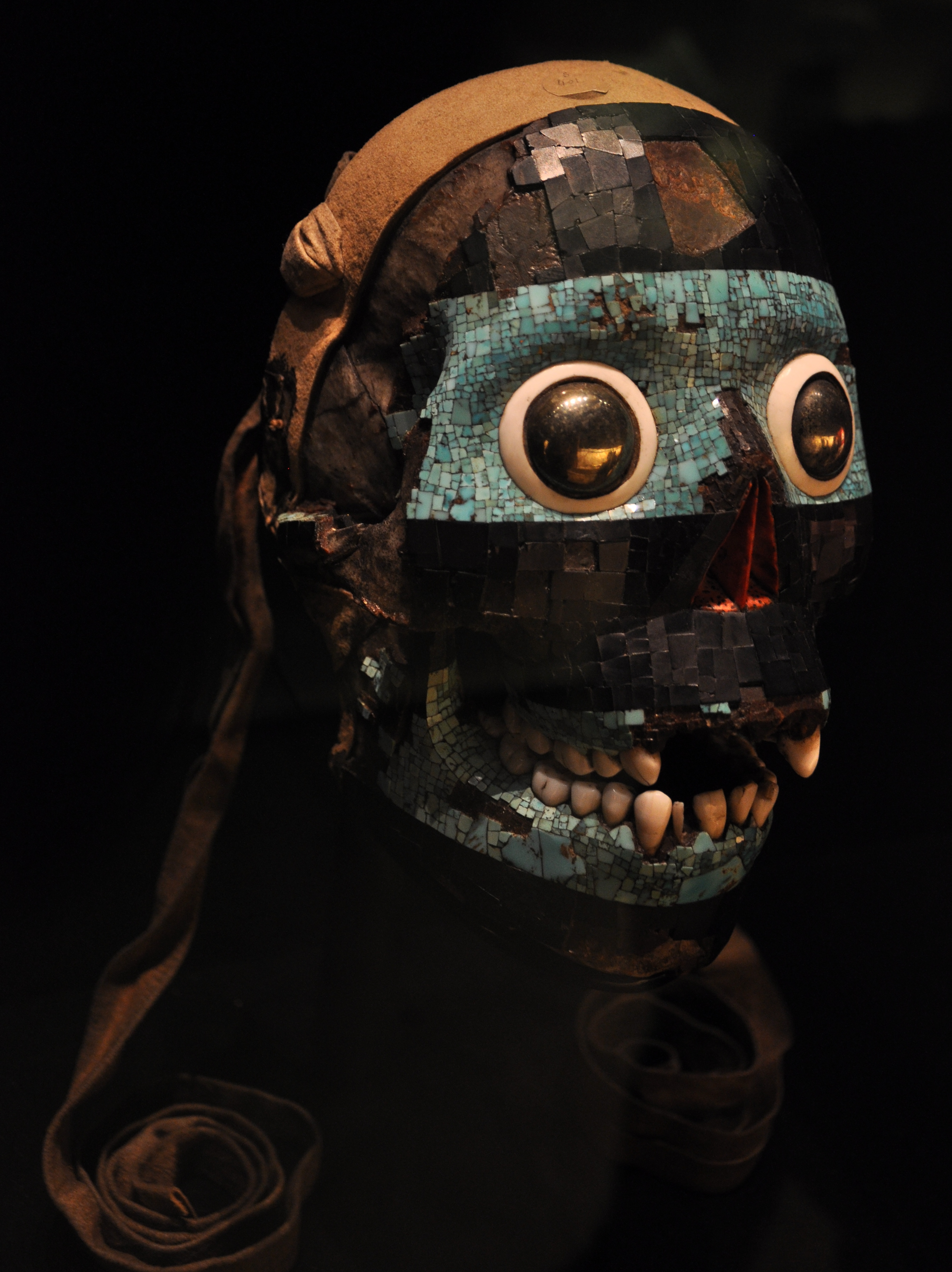 Skull with turquoise mosaik representing Tezcatlipoca The smoking Mirror. Mixtec from 15th or 16th Century. British Museum.